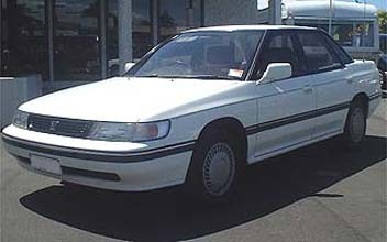 いすゞ・アスカ（2代目） 2nd Isuzu Aska (Sold in Australia as the Subaru Liberty)